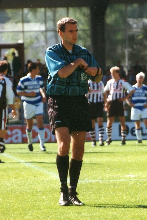 Jörg Keßler German Referee